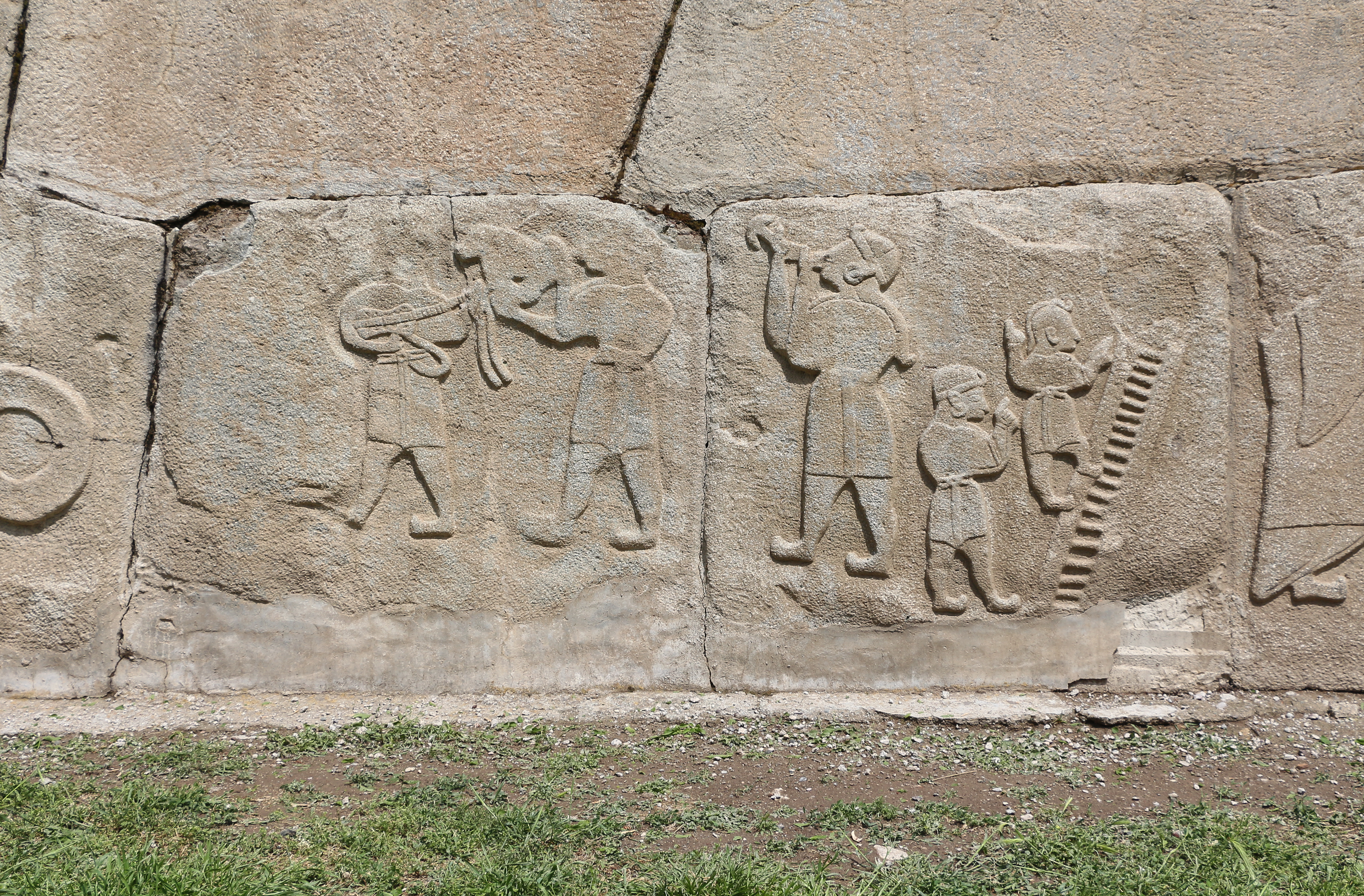 Reliefs on orthostates at the west of the Sphinx Gate, Alaca Höyük, Turkey